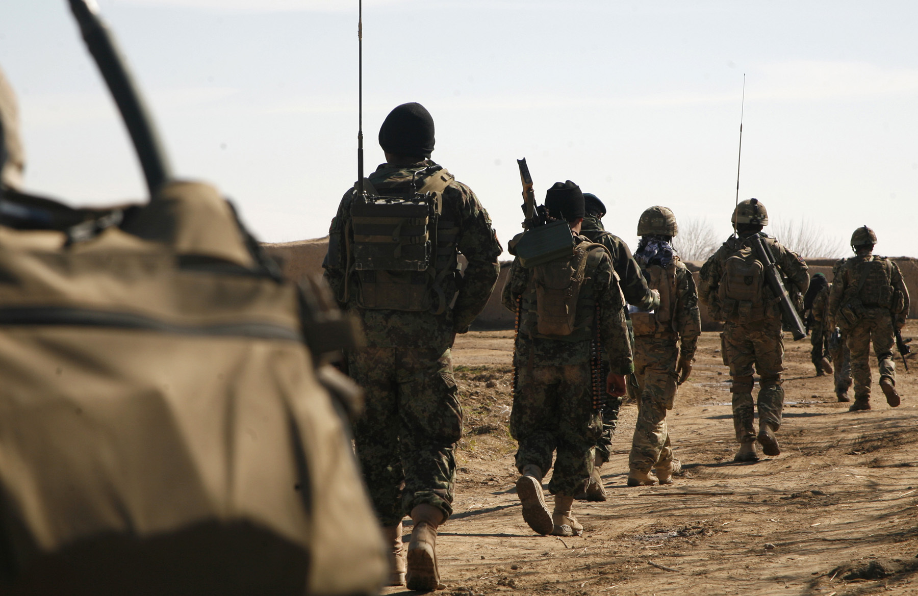 Afghan National Army soldiers with 3rd Kandak, 3rd Brigade, 215th Afghan National Army Corps and their coalition advisors with 1st Battalion, Irish Guards Brigade Advisory Group move on patrol during Operation Omid Shash in Gereshk, Helmand province, Afghanistan, Feb. 6. The advisors have been working with 3rd Kandak for more than five months. During Omid Shash, the ANA and British army soldiers worked together to clear several villages south of Gereshk city.